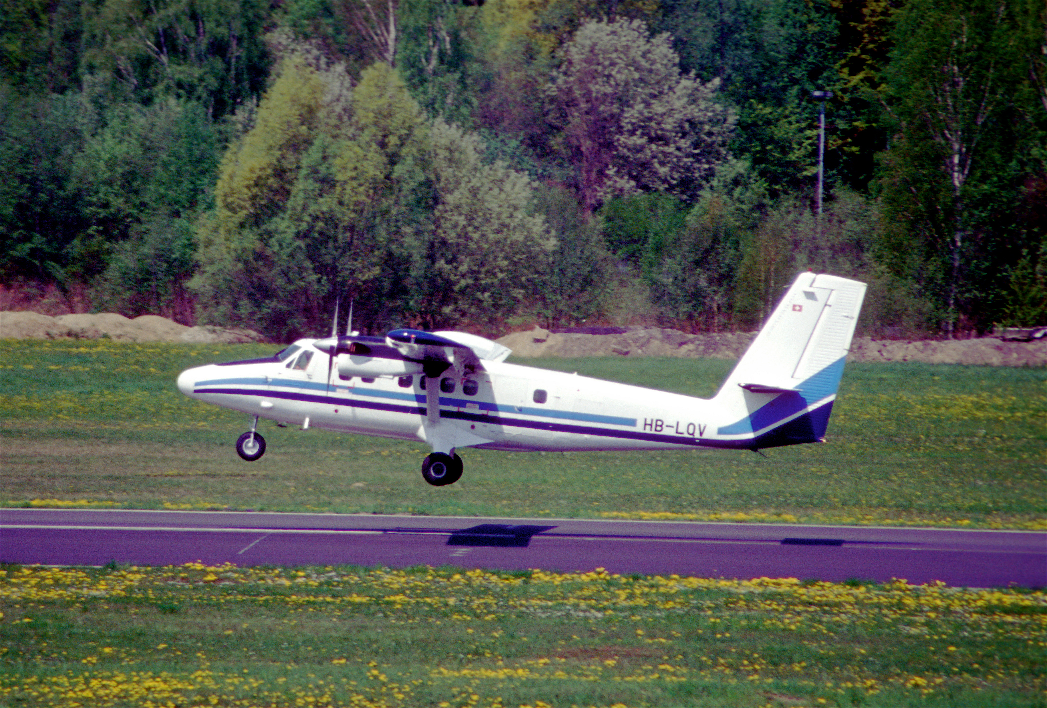 291aa - Zimex Aviation DHC-6 Twin Otter 300; HB-LQV@FDH;28.04.2004